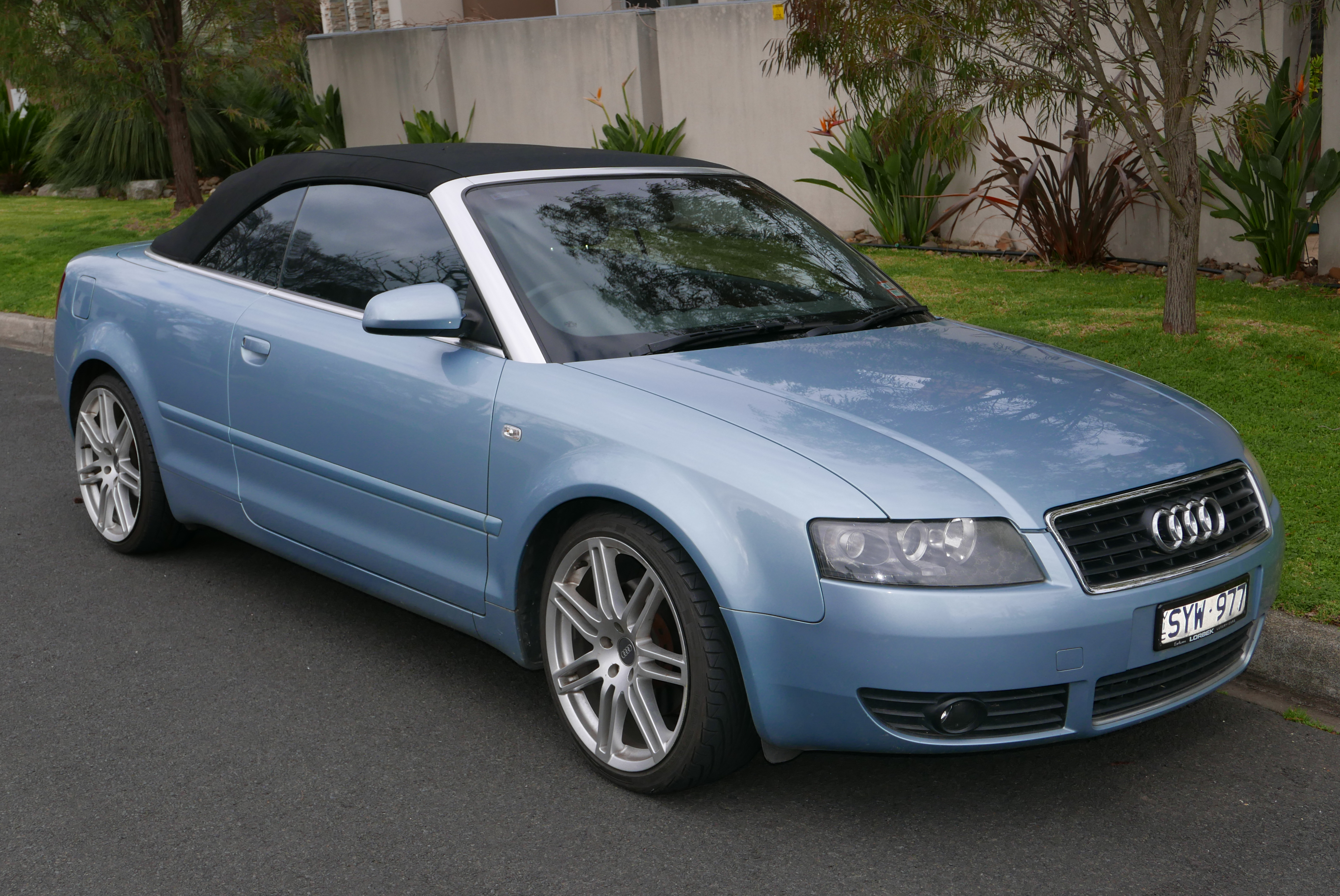 2004 Audi A4 (8H) 1.8 T convertible. The wheels are from the 2006–2008 Audi RS 4 (8E) quattro. Photographed in Kew, Victoria, Australia. Vehicle registration enquiry results Jurisdiction Victoria Registration SYW977 Chassis code WAUZZZ8H54K026225 Engine code BFB068280 Compliance date 2004-06 Year of manufacture 2004